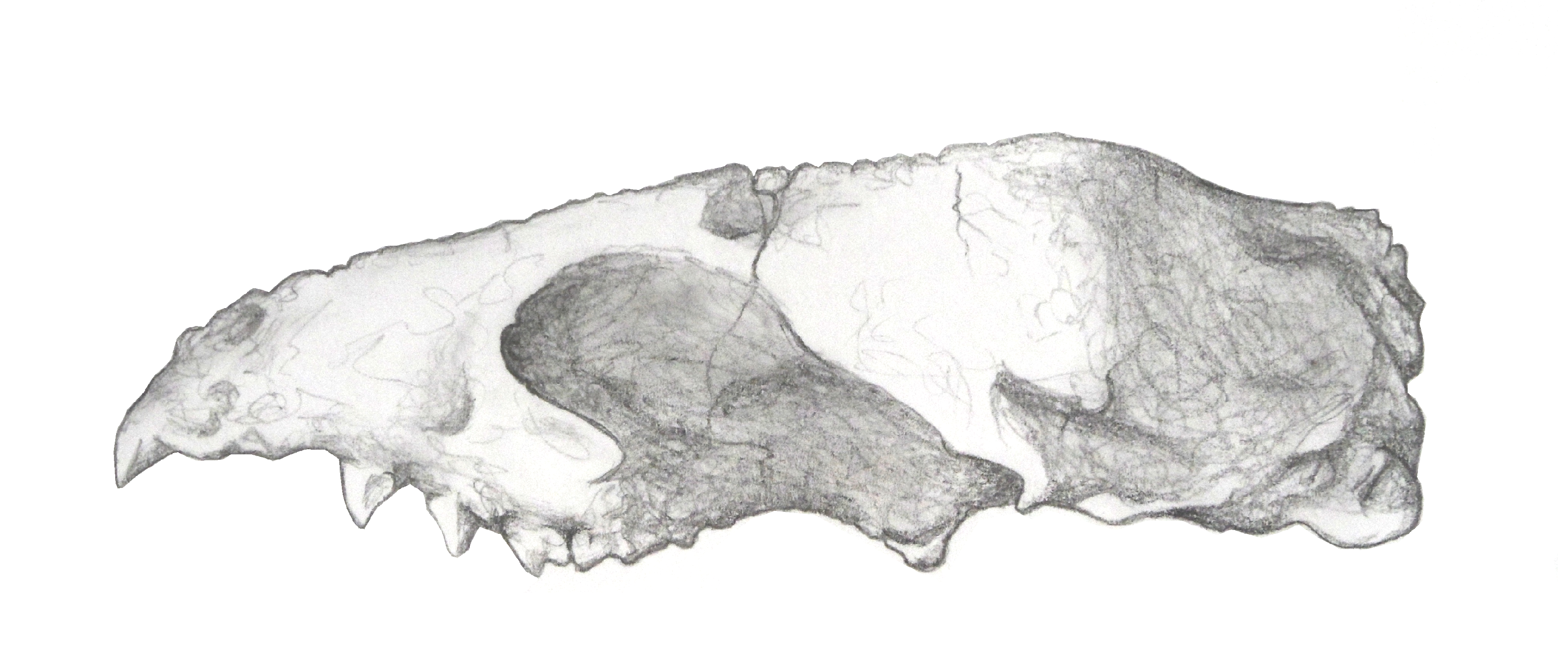 fossil specimen of Miacis cognitus